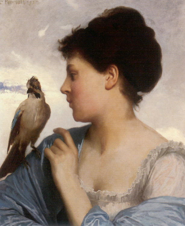 The Bird Charmer